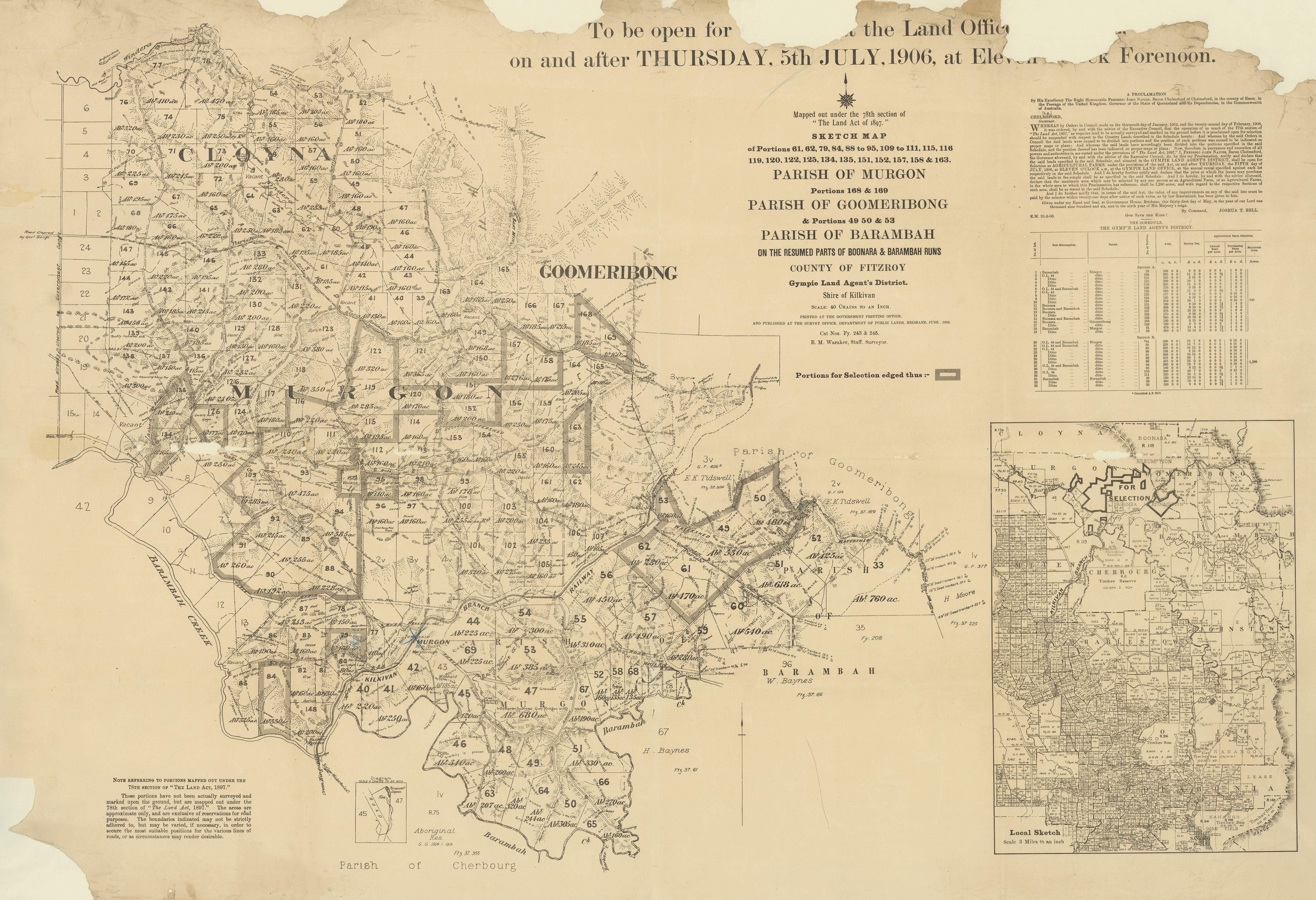 Sketch map of portions 61, 62, ..., parish of Murgon, portions 168 & 169, parish of Goomeribong & portions 49, 50 & 53, parish of Barambah ... county of Fitzroy